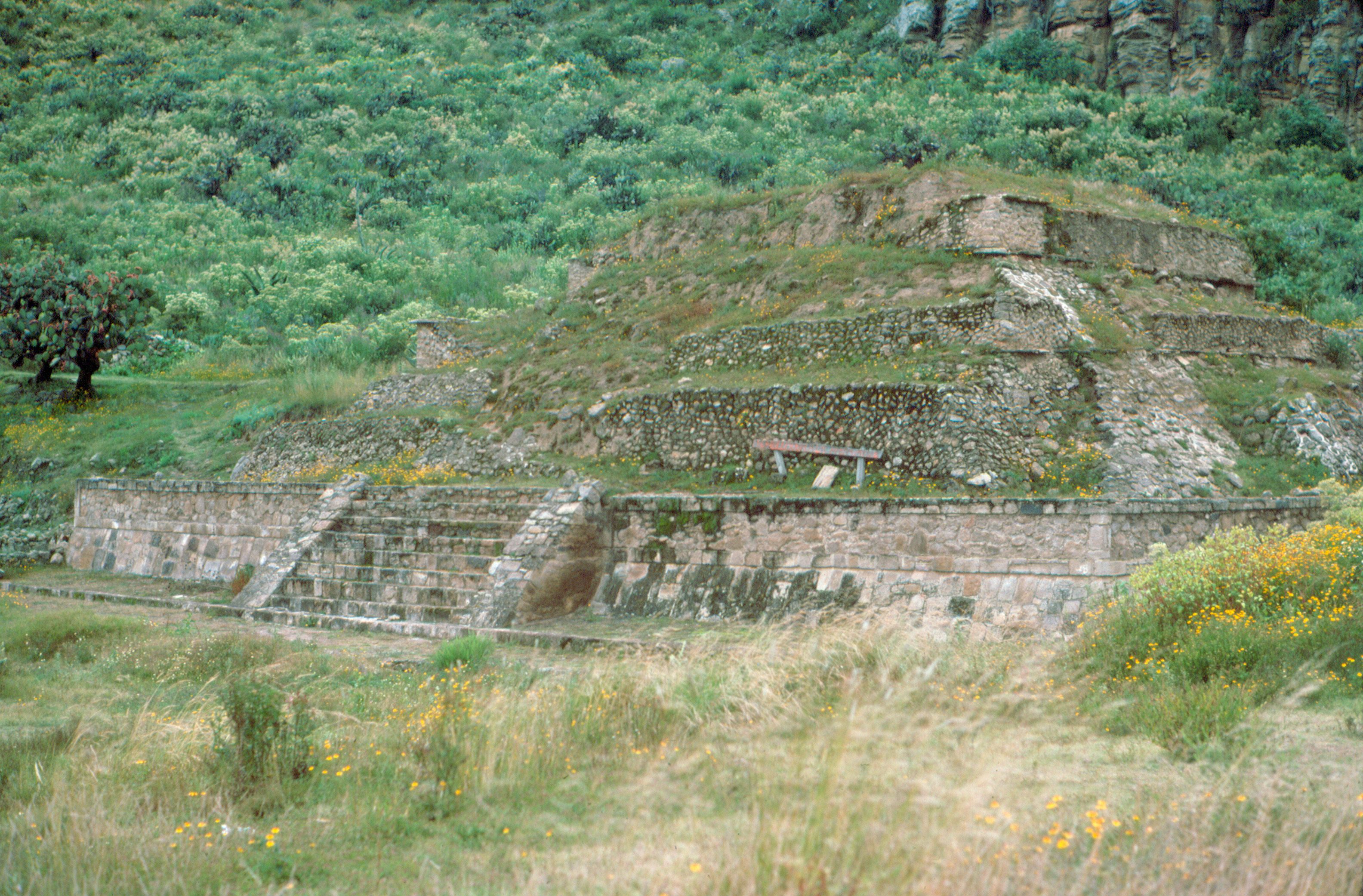 Huapalcalco near Tulancingo, Hidalgo, Mexico: Pyramid